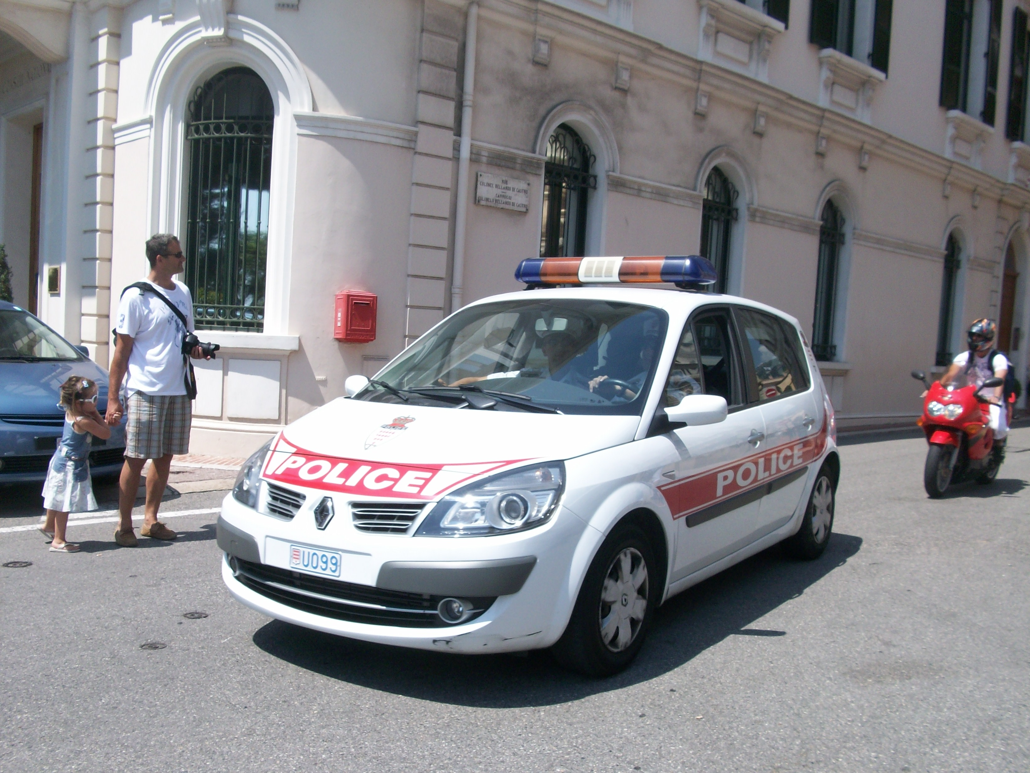 A police car in Monaco (Renault Scénic II)